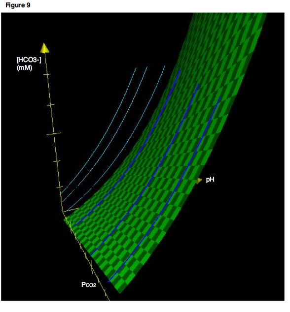 Description: Figure 9. Isopleths as we normally encounter them are actually the projection of lines existing in three-dimensional space onto a two-dimensional plane.